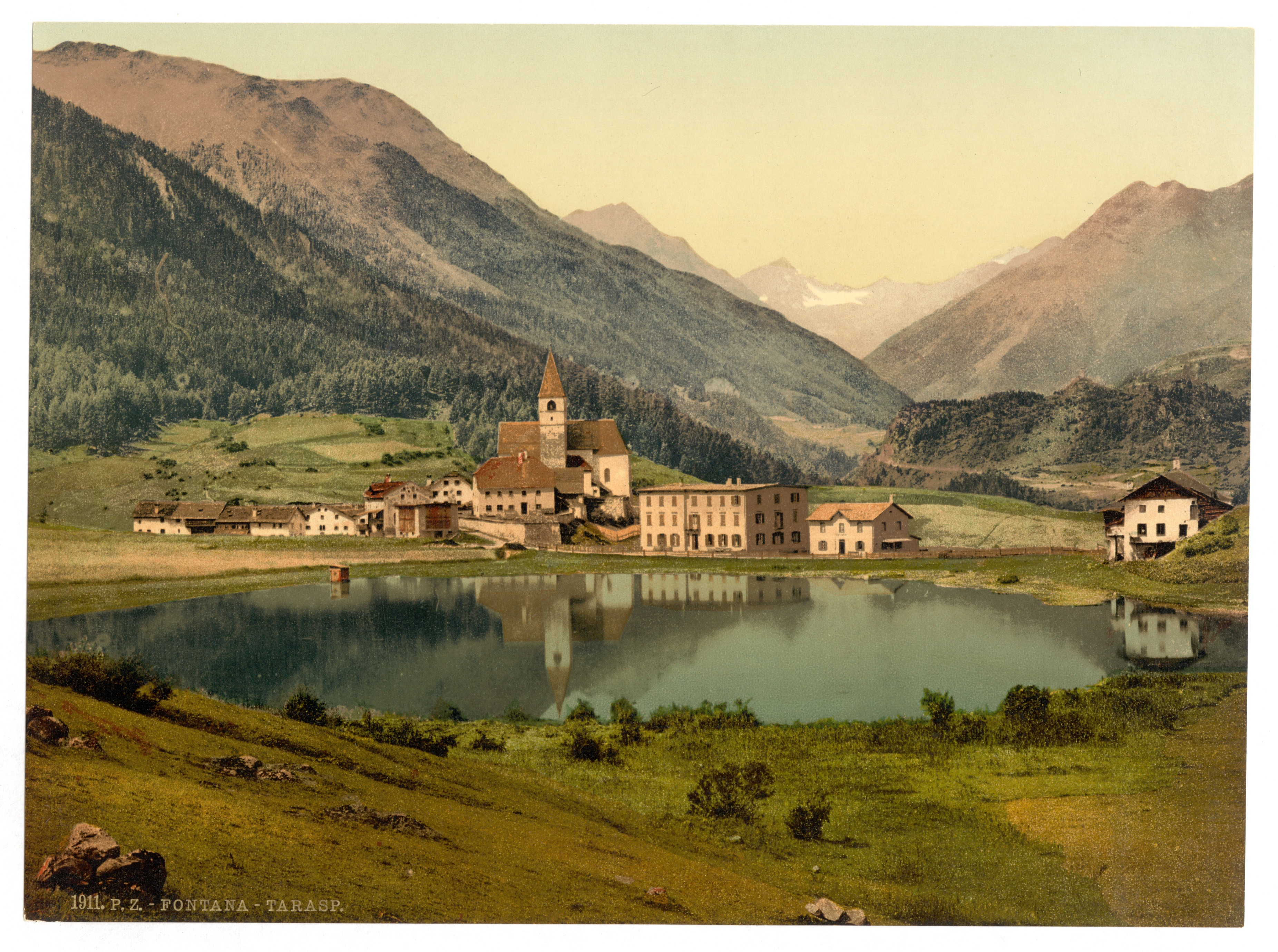 Forms part of: Views of Switzerland in the Photochrom print collection.; Print no. "1911".; Title from the Detroit Publishing Co., Catalogue J-foreign section, Detroit, Mich. : Detroit Publishing Company, 1905.